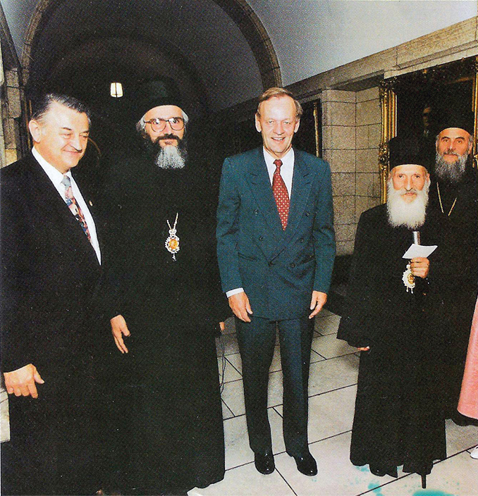 MP Jesse Flis, Bishop Georgije Đokić of Canada, Prime Minister Jean Chrétien, Patriarch of Serbia Pavle and his successor as Patriarch then-Bishop Irinej of Niš.